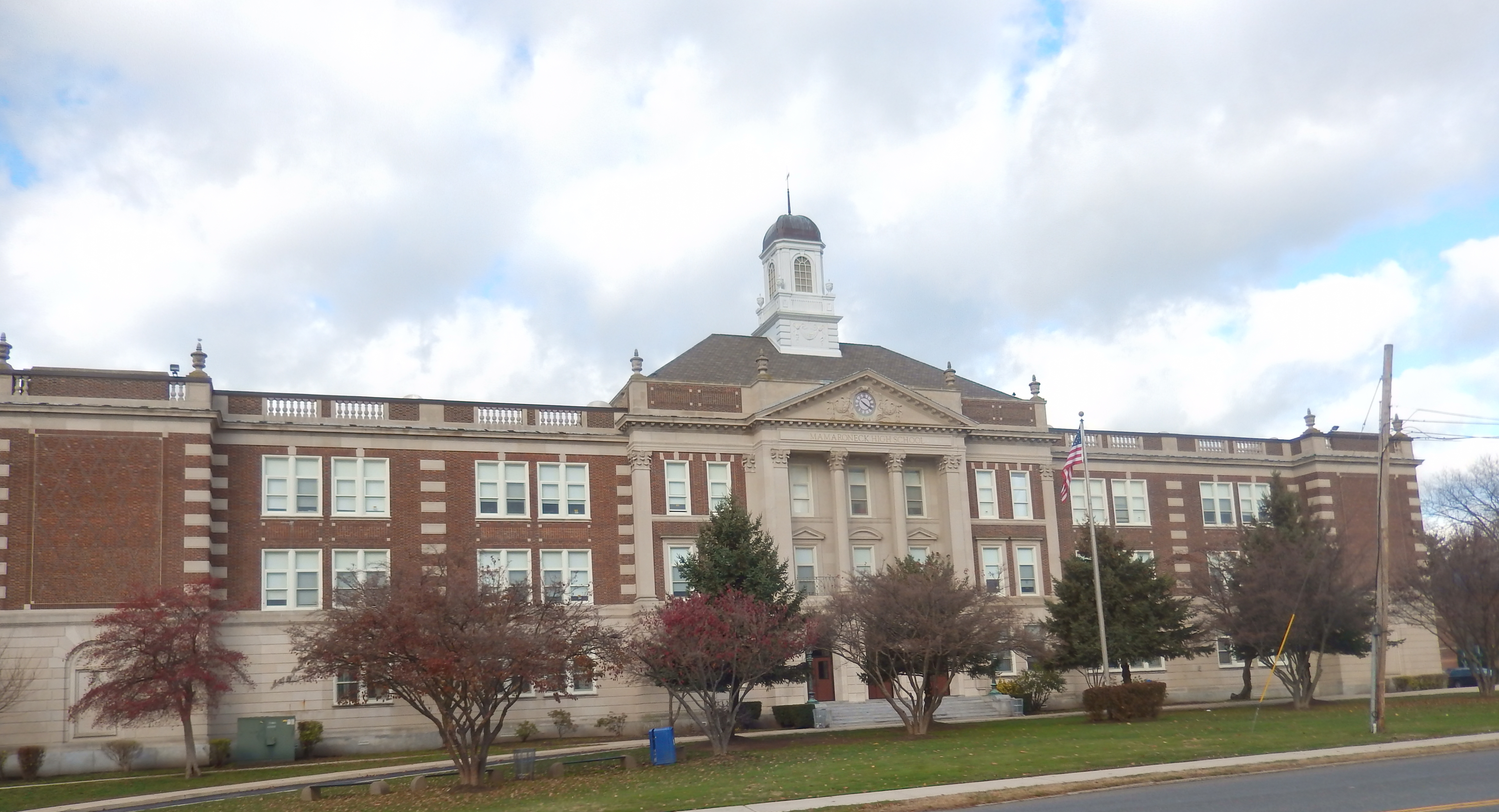 Mamaroneck High School, Boston Post Road building (former Junior High School), built in 1926, Mamaroneck Union Free School District, Mamaroneck, NY